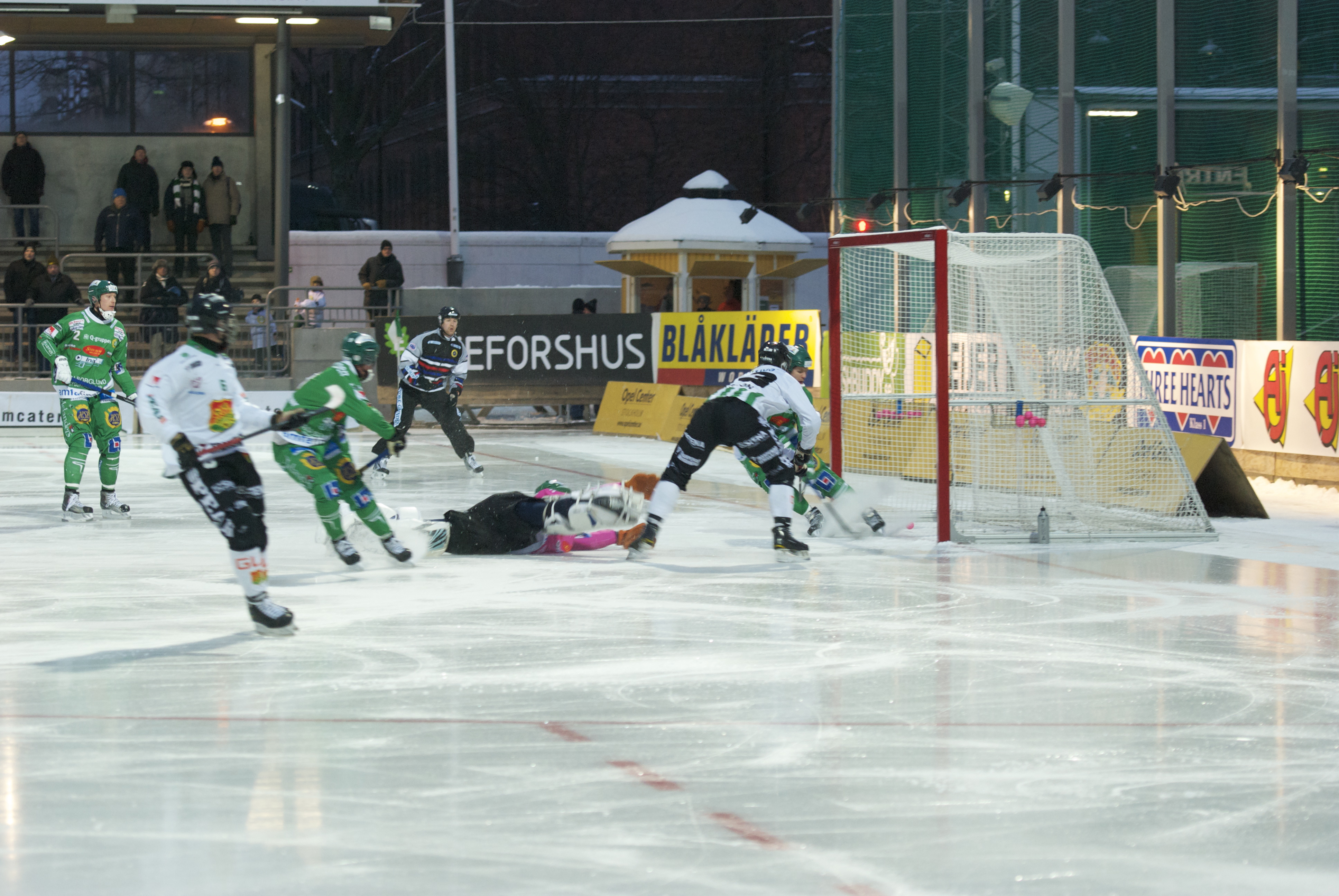 Eric Claesson (GAIS) scores 2-2. Match between Hammarby and GAIS Elitserien, Zinkendamms IP (Stockholm) 2012-02-11.